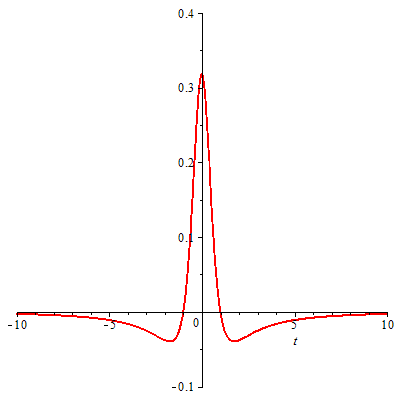 This is an image of the wavelet function, called the Poisson wavelet, which is associated with the Poisson kernel.